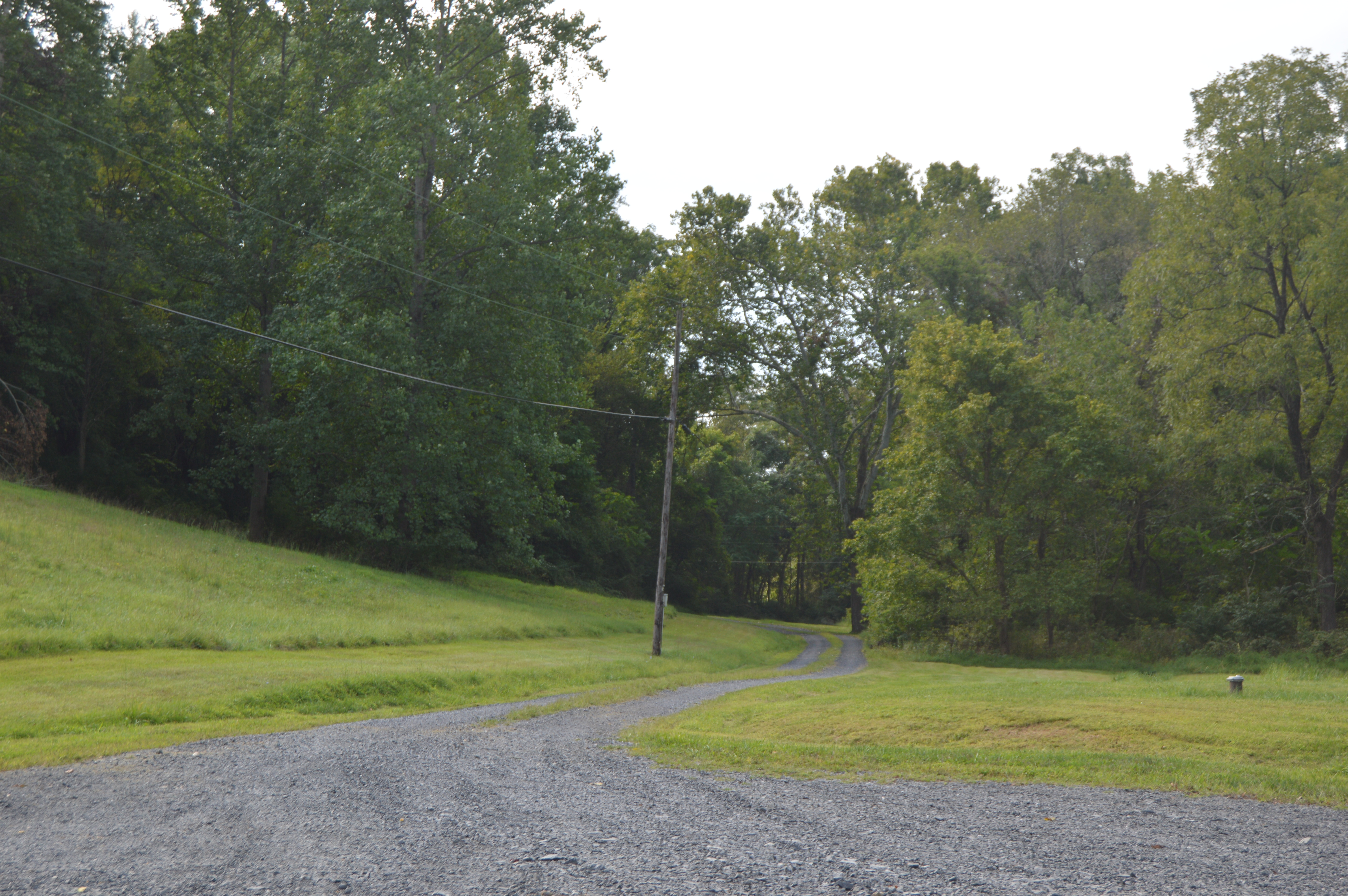 Entrance to the Stoke property, located off Champe Ford Road southwest of Aldie in Loudoun County, Virginia, United States. The estate is listed on the National Register of Historic Places.